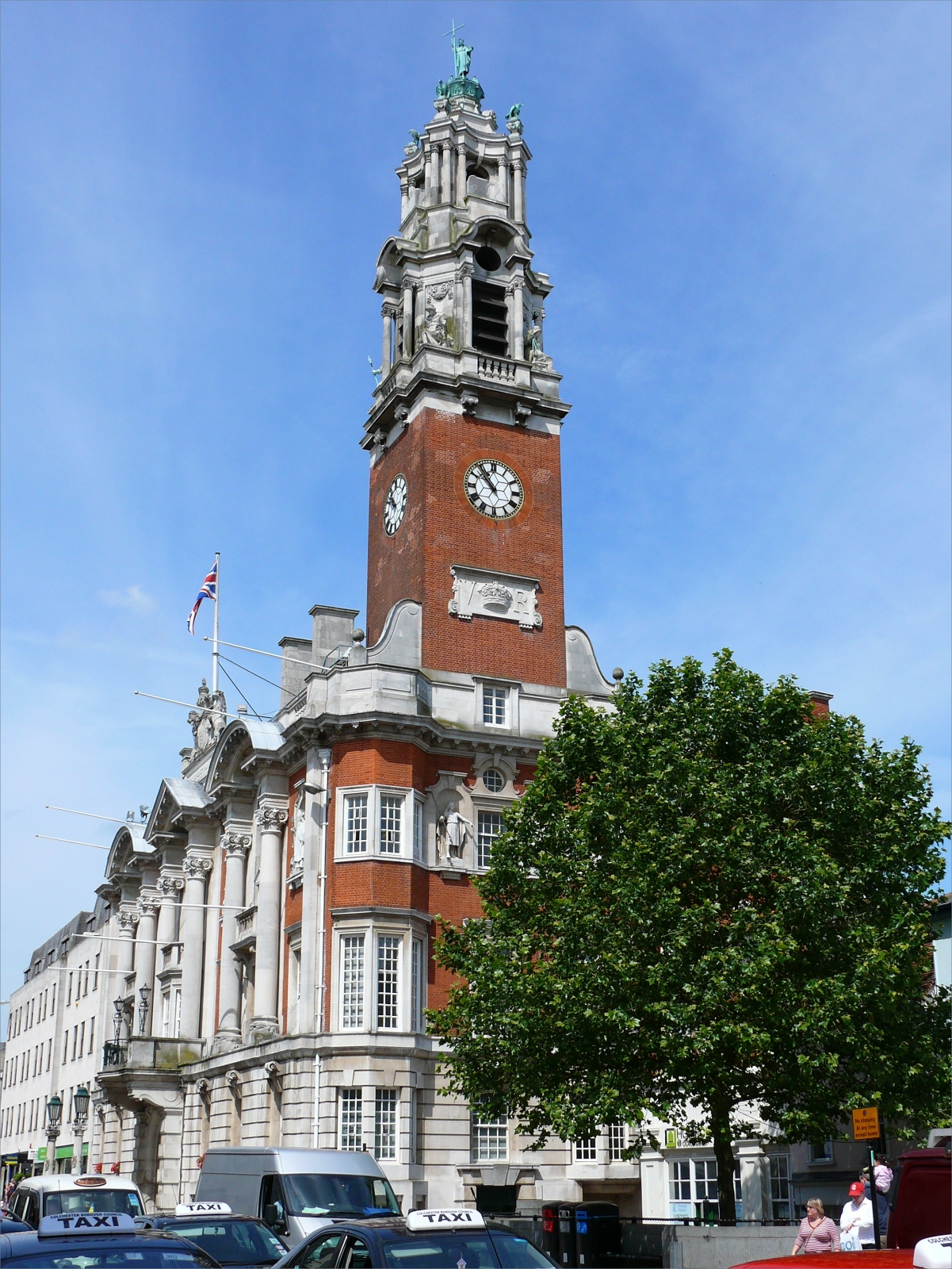 The victorian Town Hall of Colchester , Colchester